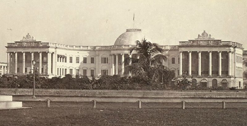 A view looking eastwards along Esplanade Row, with Richard Westmacott's statue of Sir William Cavendish-Bentinck, Governor-General of India from 1833-1835, in the foreground and the western entrance to Government House beyond. Government House, designed by Captain Charles Wyatt and built between 1799-1802, was the residence for the British Governors-General till 1911. Photographer: Samuel Bourne